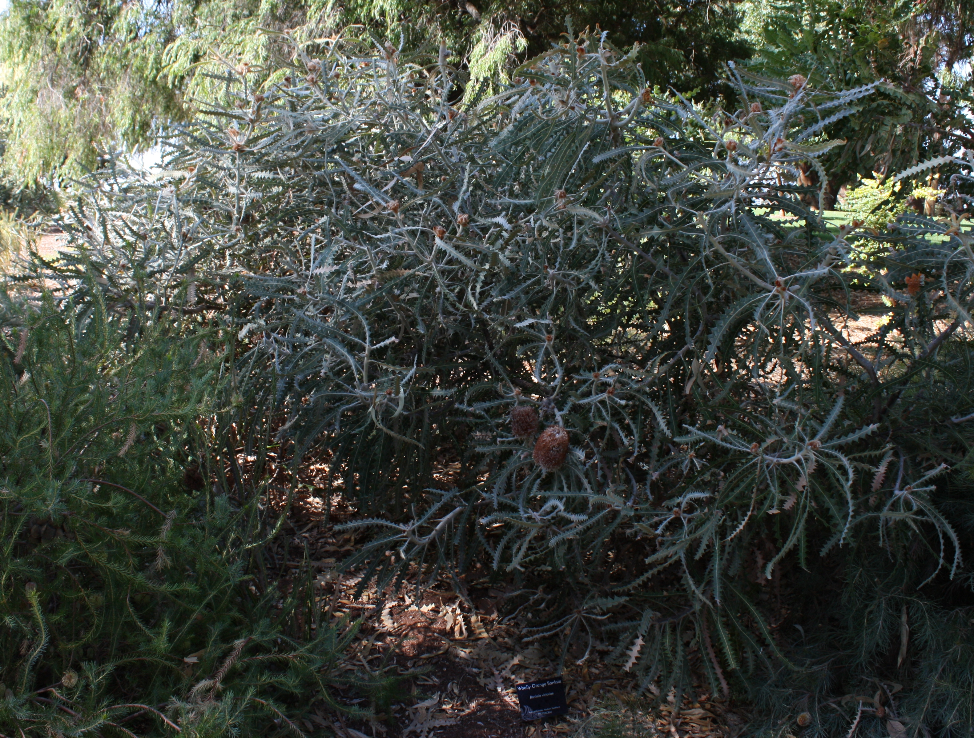 Banksia victoriae, in cultivation, Kings Park, Perth, Western Australia